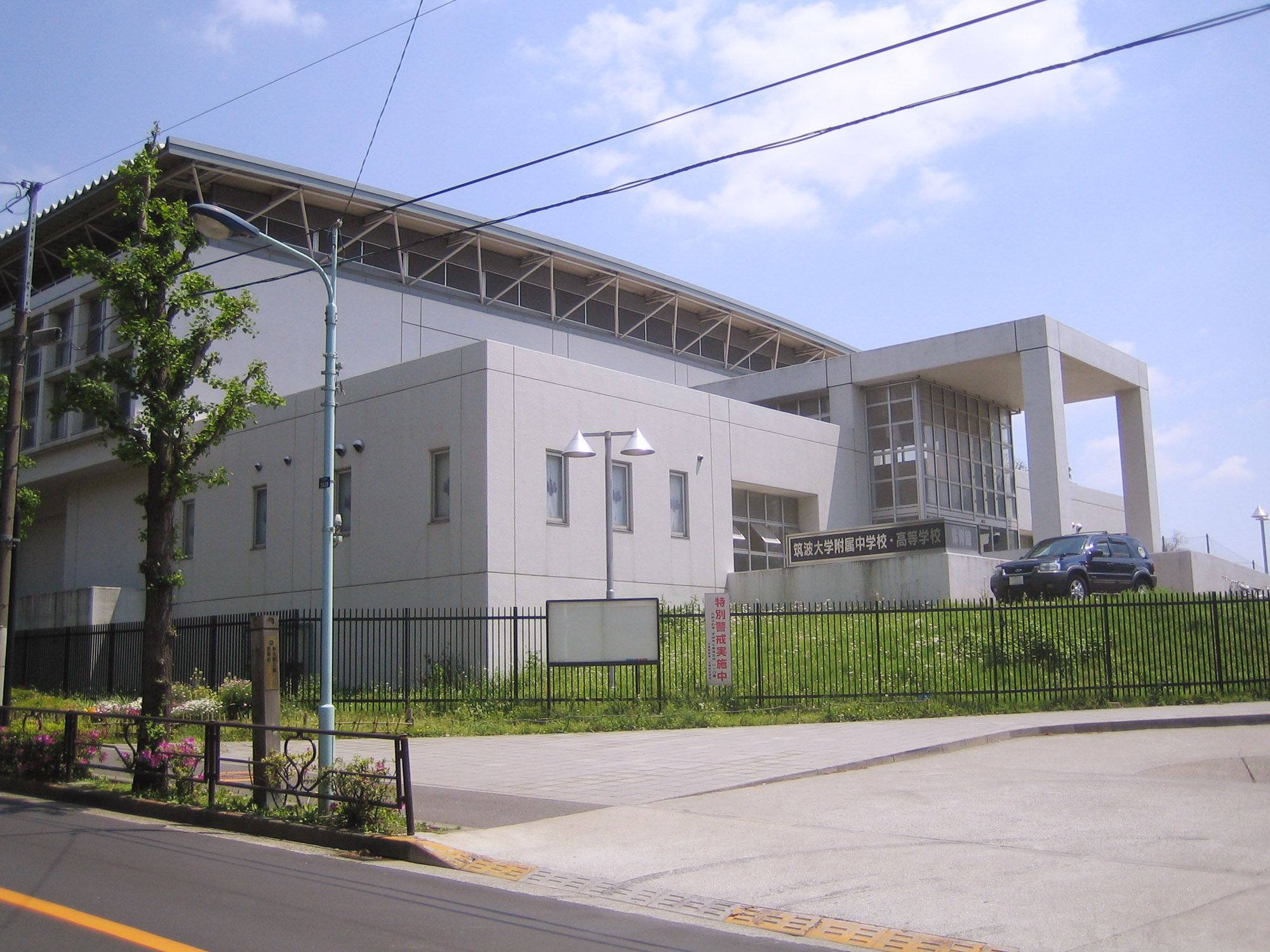 Jr. and Sr. High School at Otsuka, University of Tsukuba (筑波大学附属中学校・高等学校), in Bunkyo, Tokyo, Japan